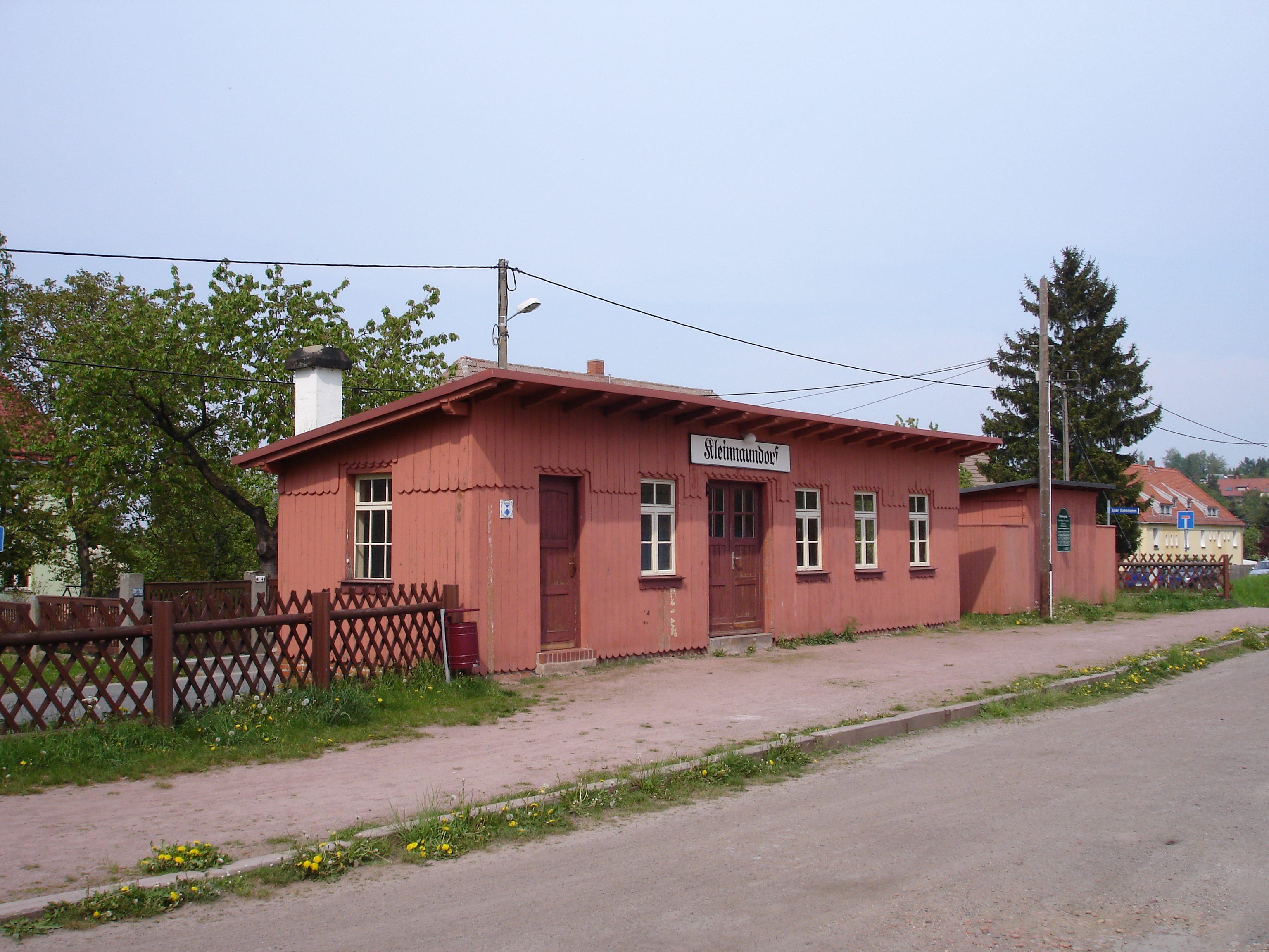 station Kleinnaundorf of Windbergbahn, Germany